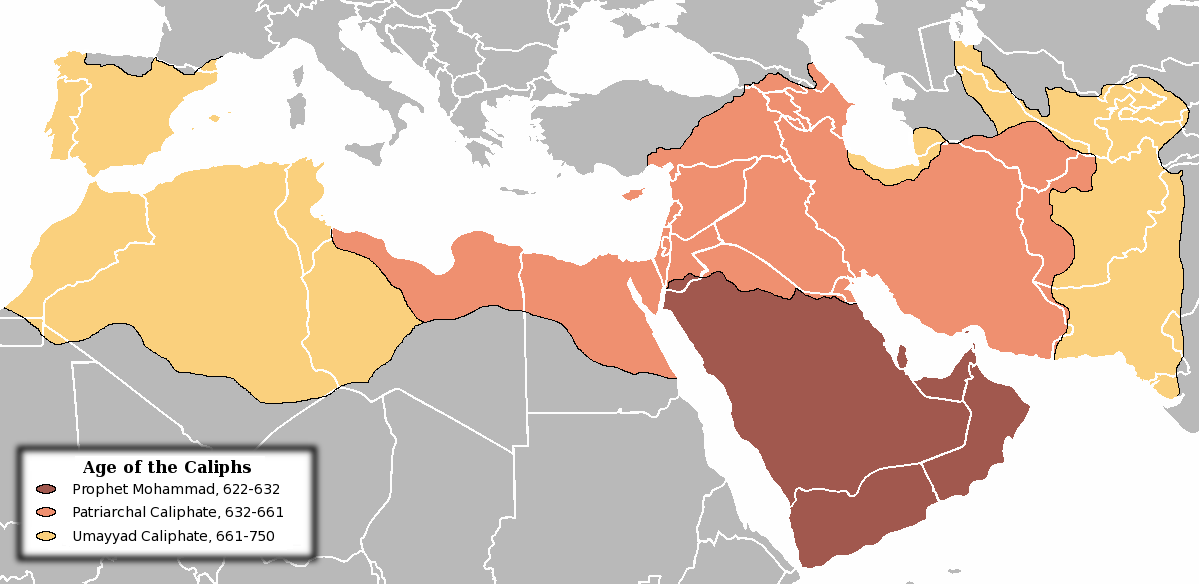 Age of the Caliphs